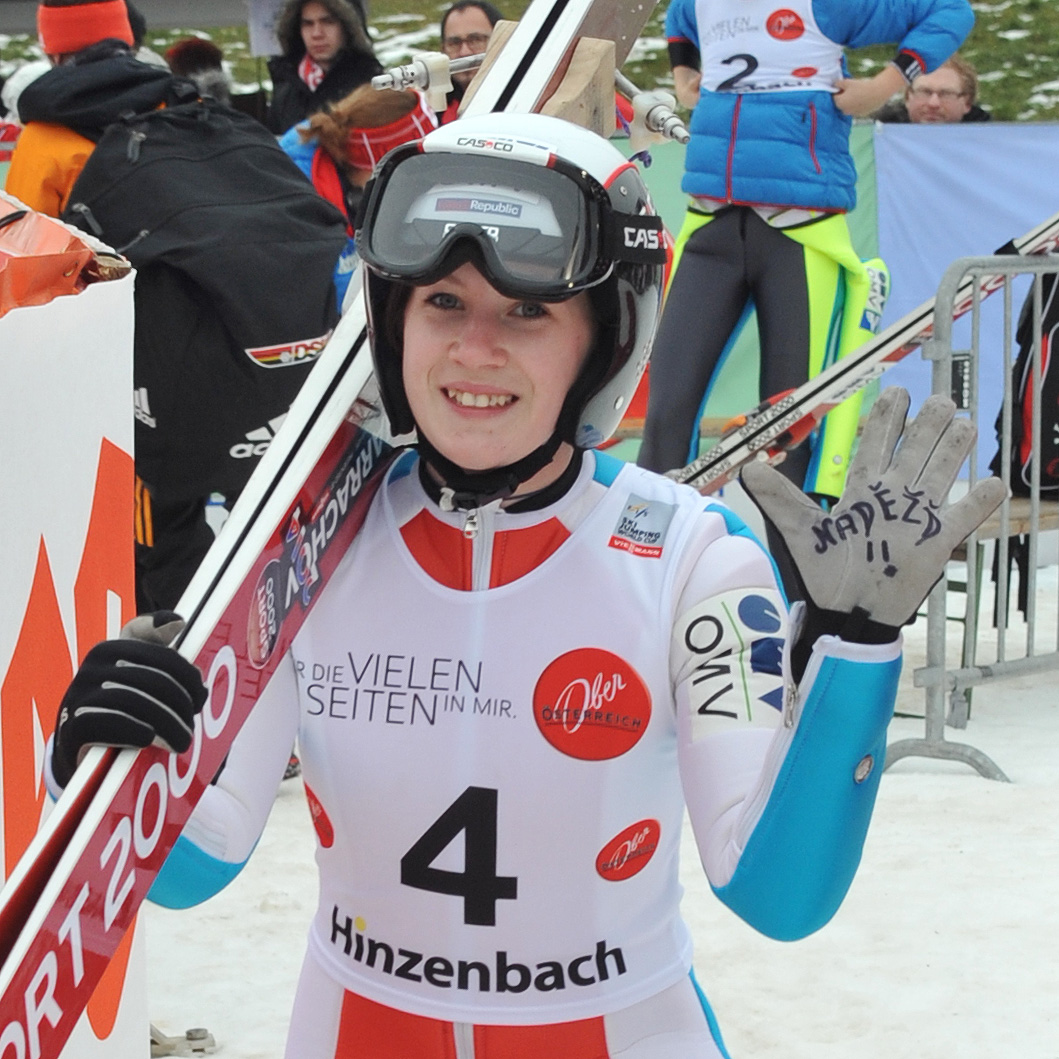 FIS Ski Jumping World Cup Ladies 14th World Cup Competition Normal Hill Individual Hinzenbach (AUT) Sun 2 Feb 2014: Barbora Blazkova